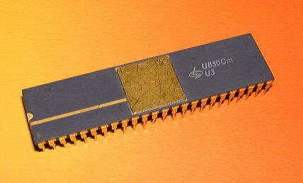 Robotron U830Cm